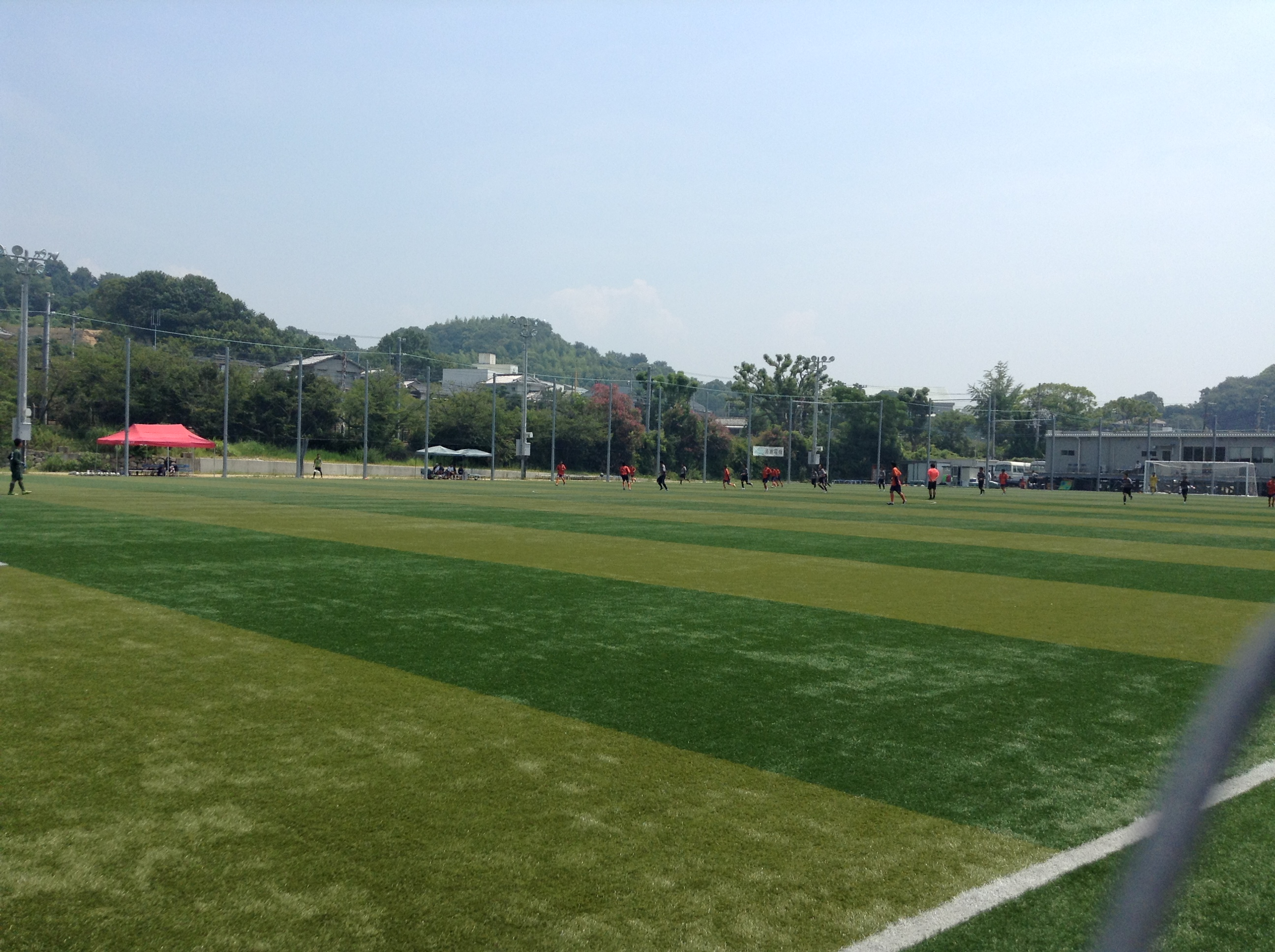 Ai Field Baishinji in Matsuyama-shi.